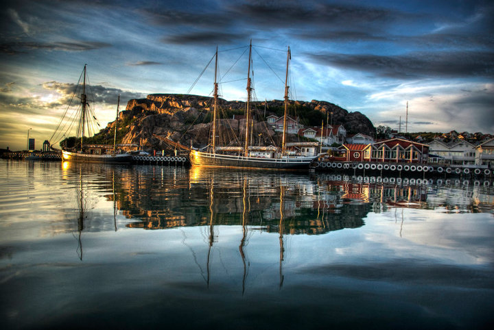 picture of two old Swedish ships, T/S Britta to the left and T/S Westkust to the right.